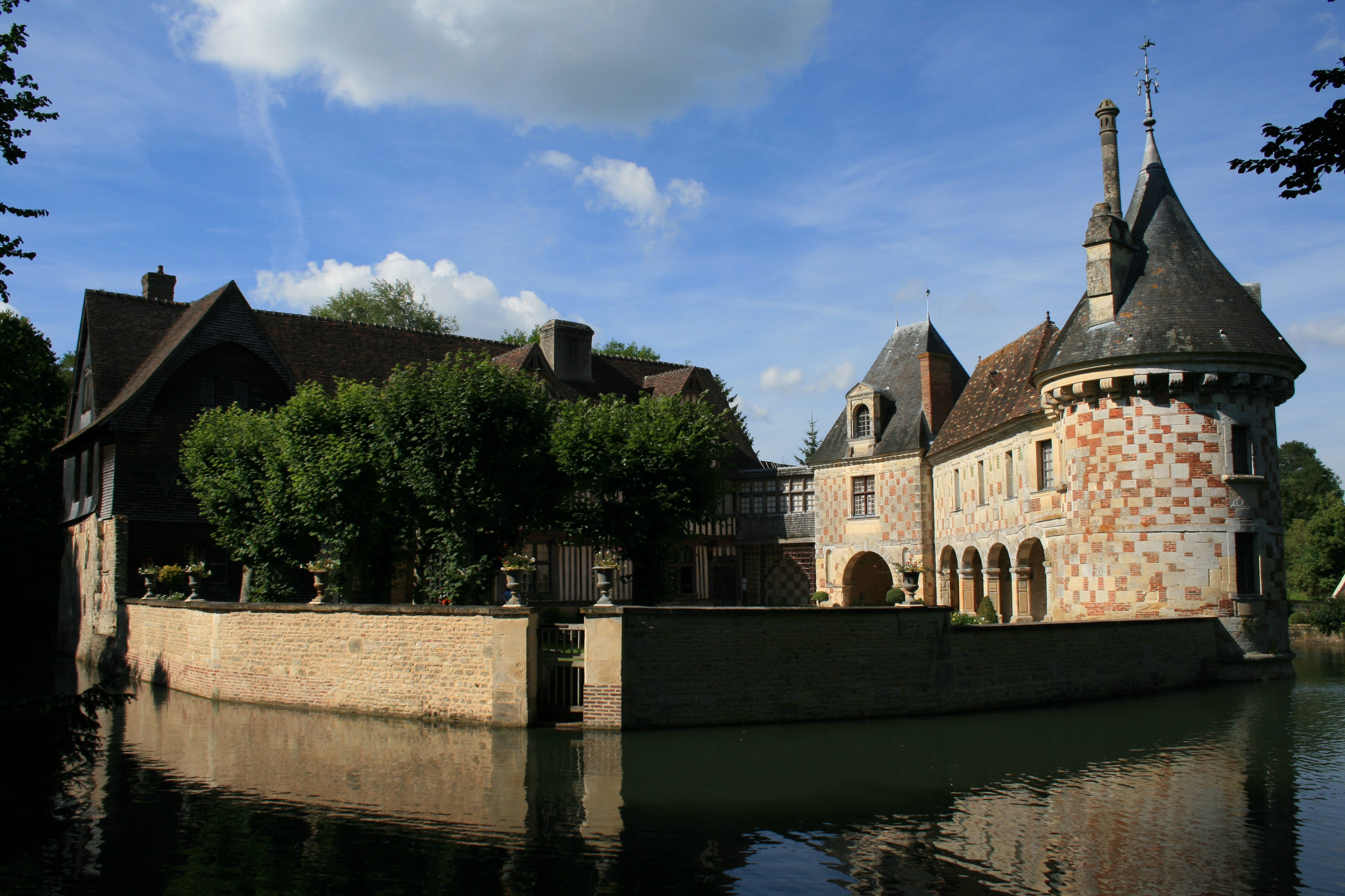 Castle of Saint Germain de Livet (South view, 14100 - France). Camera: Canon EOS 400D Digital, ExposureTime: 1/200sec, FocalLength: 21,00mm.